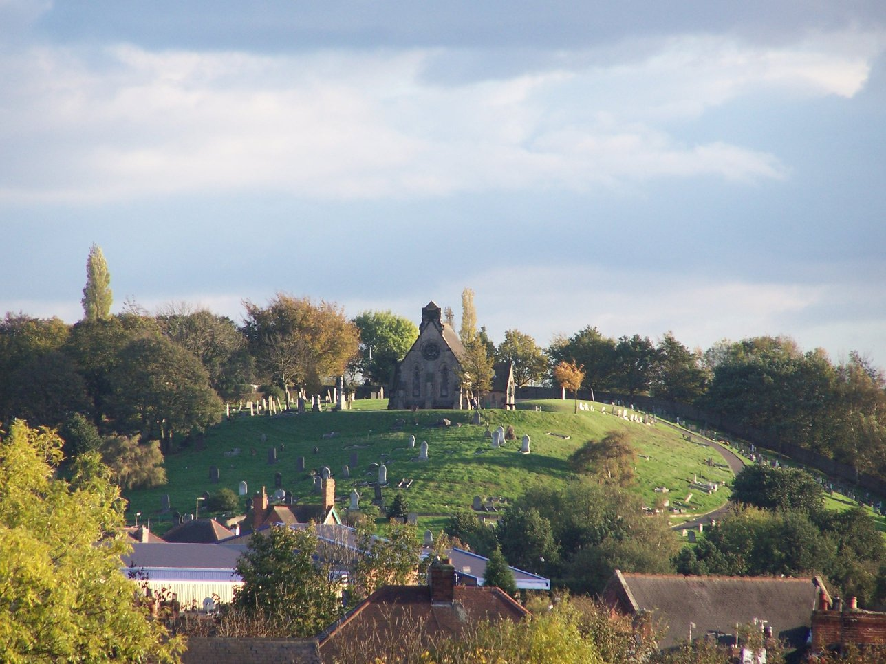 Author: Tina Cordon, Source: Own Picture, Tina Cordon 16:18, 1 November 2006 (UTC)